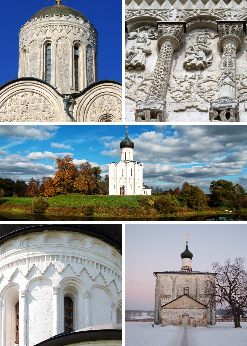 Authors of used pictures: Alexxx1979, Ляшко Ирина, Алексей Задонский, Nickolas Titkov, AndVor